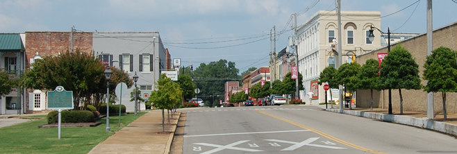 Corinth, Mississippi downtown landscape.